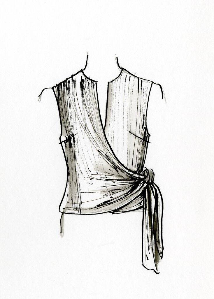 Drawing of the Thesaurus concept : 'wrap top'